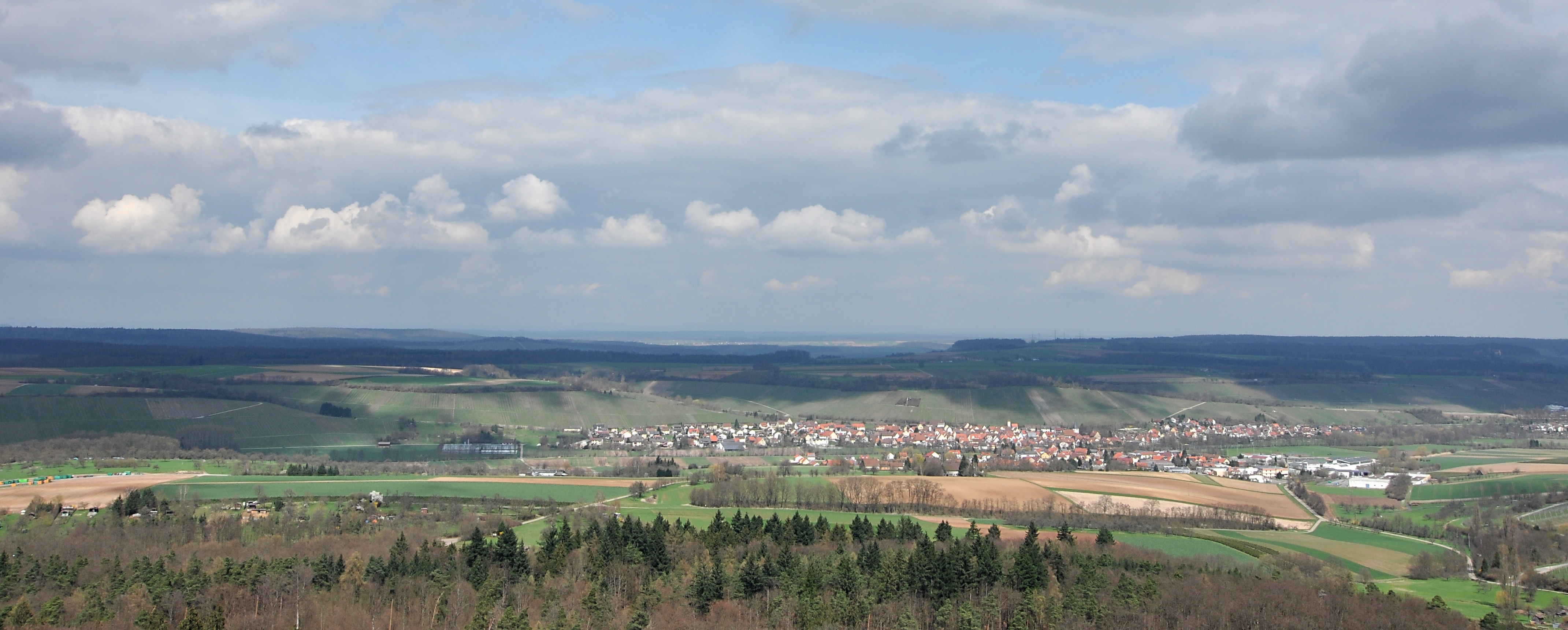 View from the Weißer Steinbruch (White Stonepit) over Pfaffenhofen and the landscape of the Zabergäu